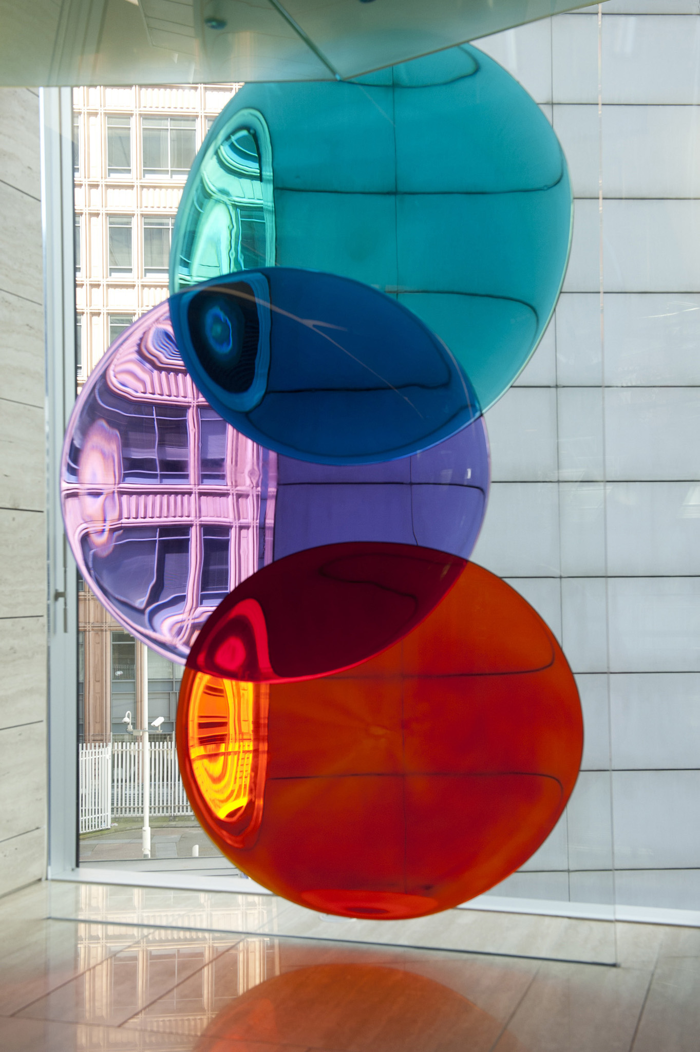 Colour Eclipse, Danny Lane, 2009, Colour Glass